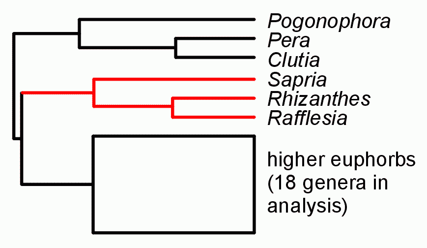 New classification of Rafflesiaceae within Euphorbiaceae. Rafflesiaceae is in red, the remainder is Euphorbiaceae. Redrawn from Davis et al., 2007.